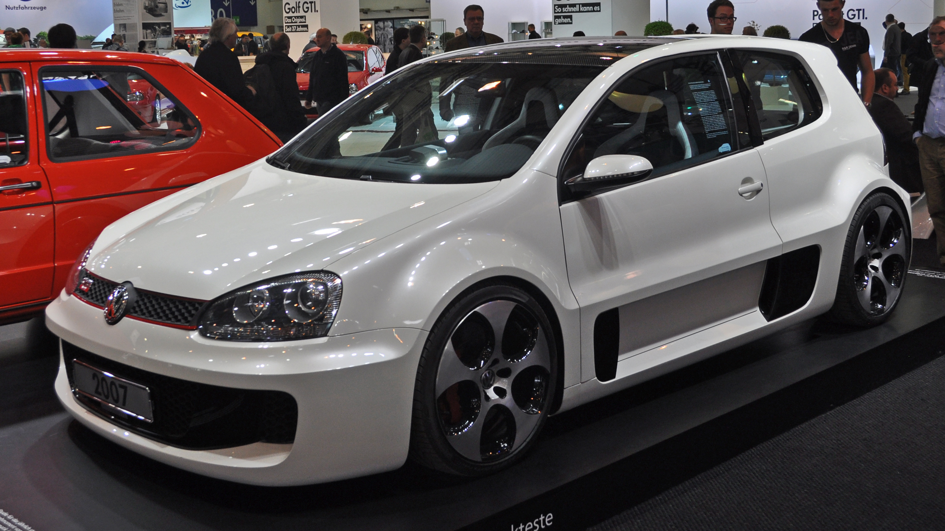 Golf GTI W12 (2007) at the Technoclassica 2013 in Essen